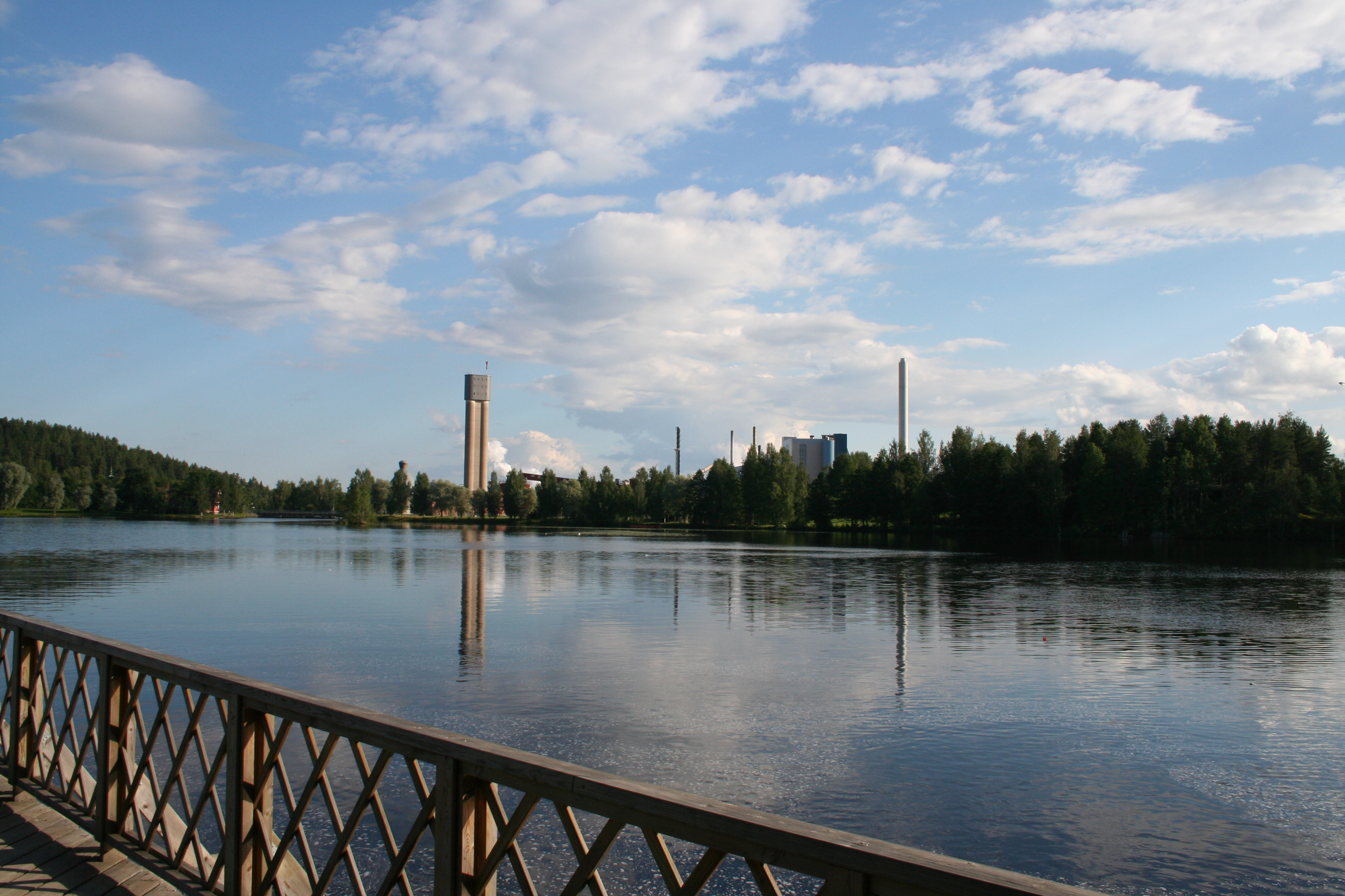 Jämsänkoski paper mill in Finland